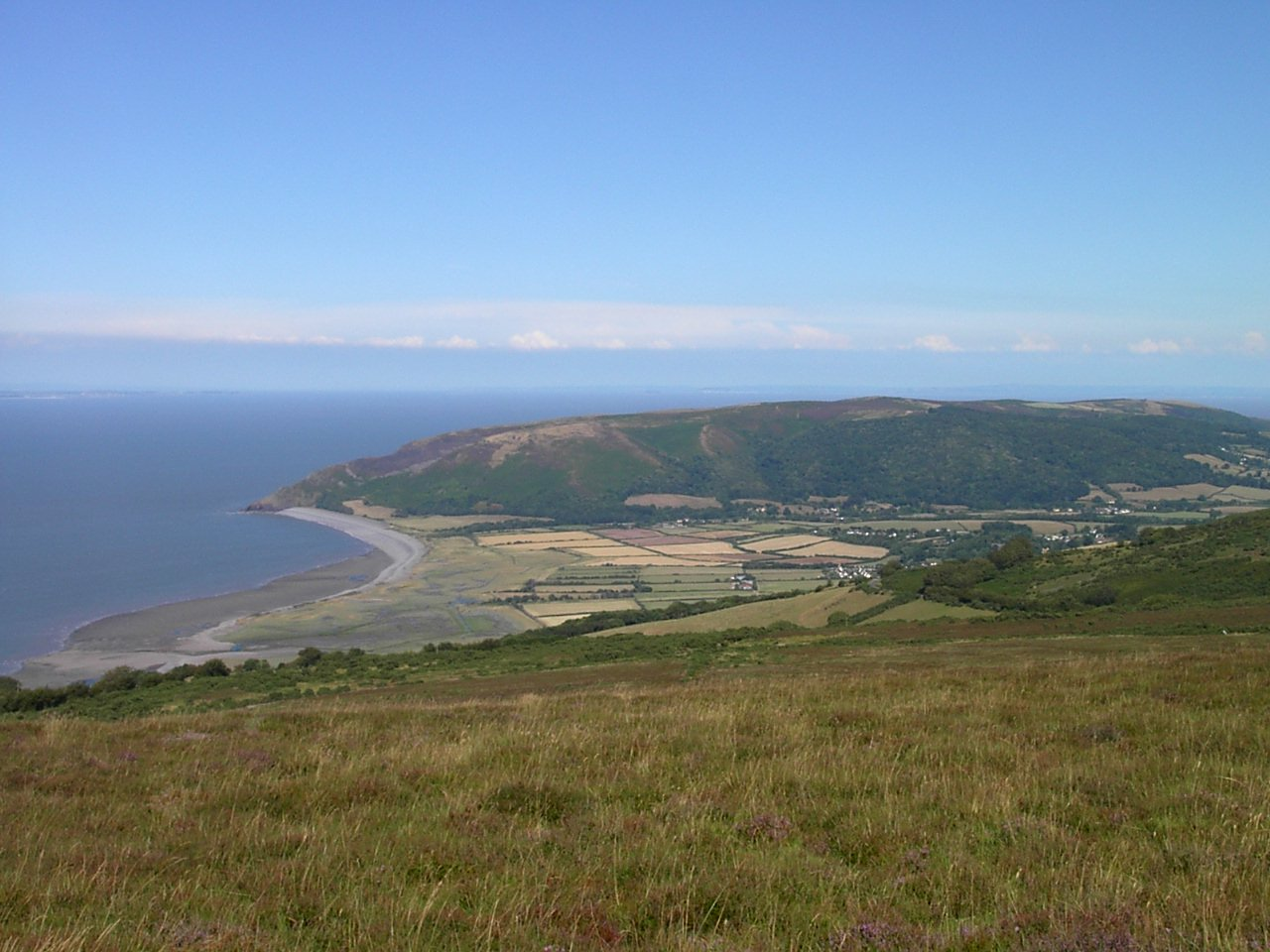 The View of the Porlock Vale from Porlock Hill looking over toward Bossington Hill and North Hill taken by Sean Hattersley on the 27/06/06